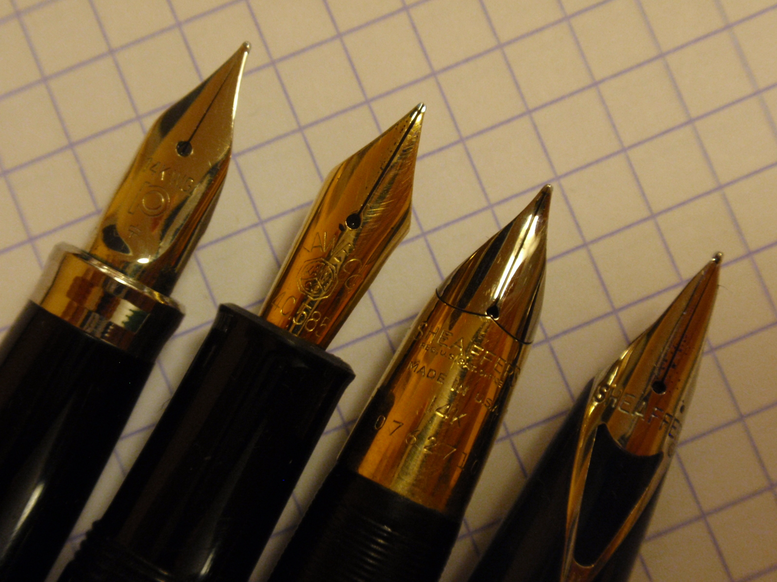 Fountain pen nibs, made of white gold, gold, and stainless steel.